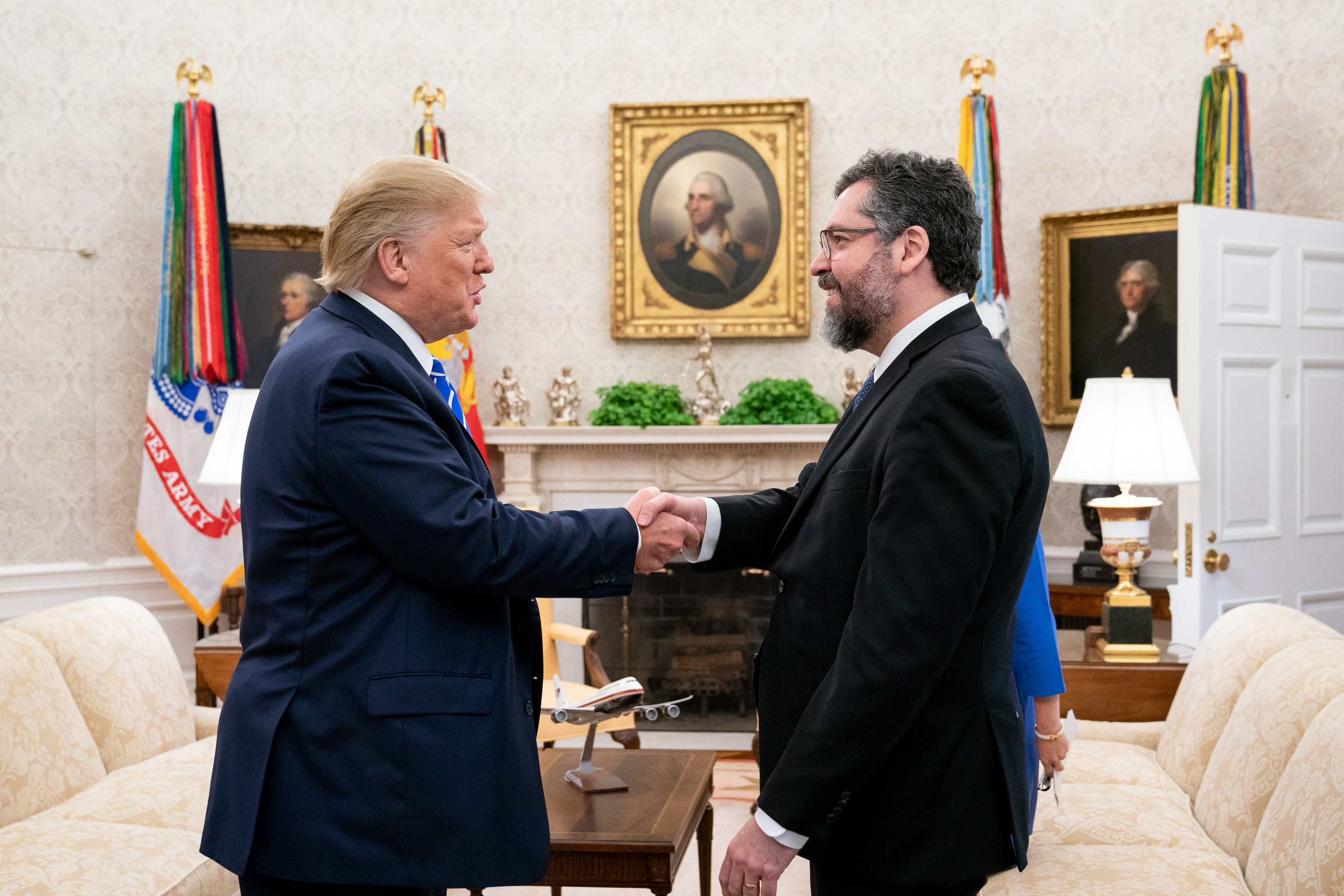 President Donald J. Trump, joined by Secretary of State Mike Pompeo, meets with Brazil’s Minister of Foreign Affairs Ernesto Henrique Araujo; Brazil Congressman and Foreign Affairs Committee President Eduardo Nantes Bolsonaro and Brazil International Affairs Advisor Filipe Martins on Friday, Aug. 30, 2019, in the Oval Office of the White House. (Official White House Photo by Joyce N. Boghosian)